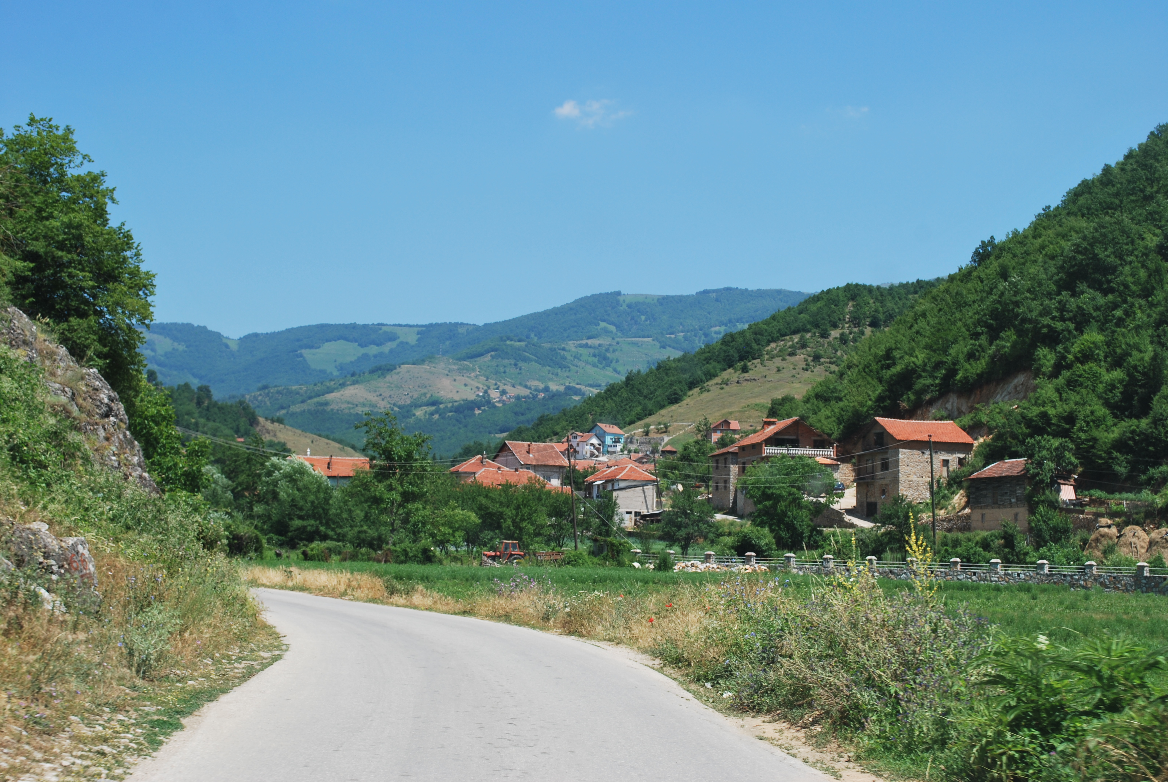 Srbinovo near Gostivar, Macedonia